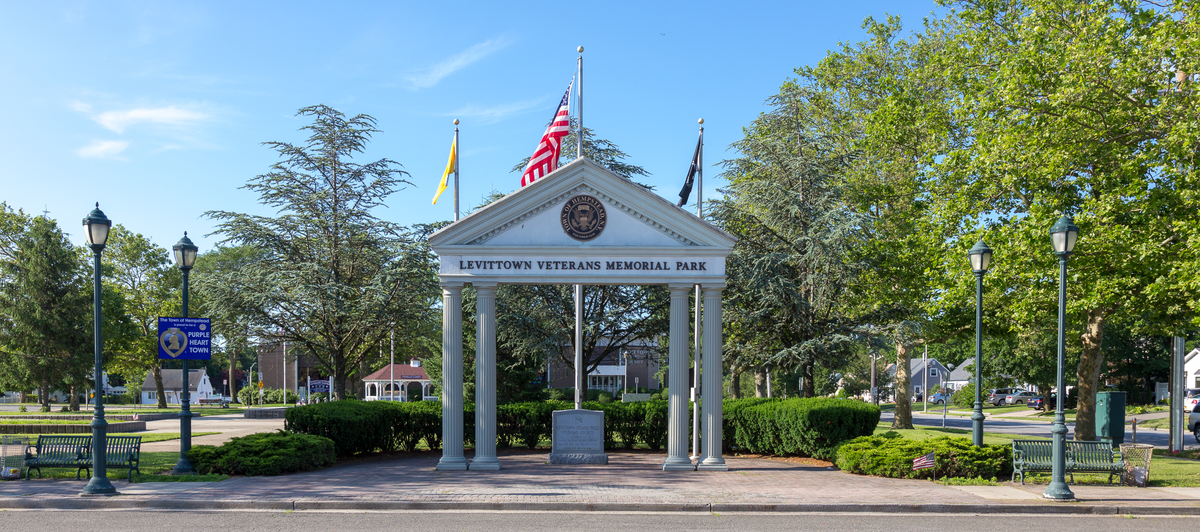 Levittown Veterans Memorial Park, on Hempstead Turnpike. Levittown, New York